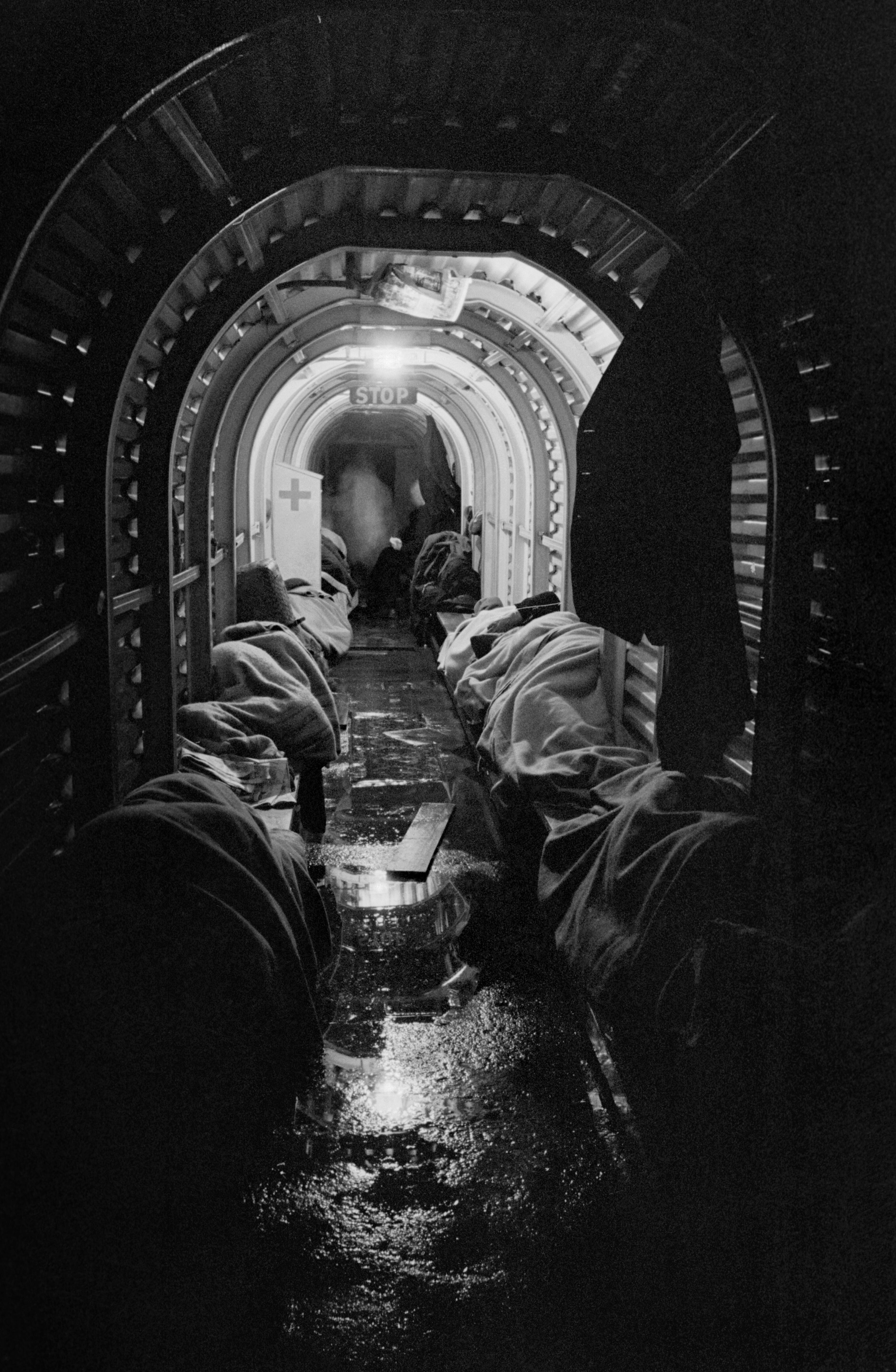 Shelter Photographs Taken in London by Bill Brandt, November 1940 Shelterers sleep on the benches which line the wall of this London trench shelter. The shelter had been flooded due to heavy rain and a few boards have been placed along the floor to help shelterers avoid the puddles. In the background, the First Aid cabinet can be seen.